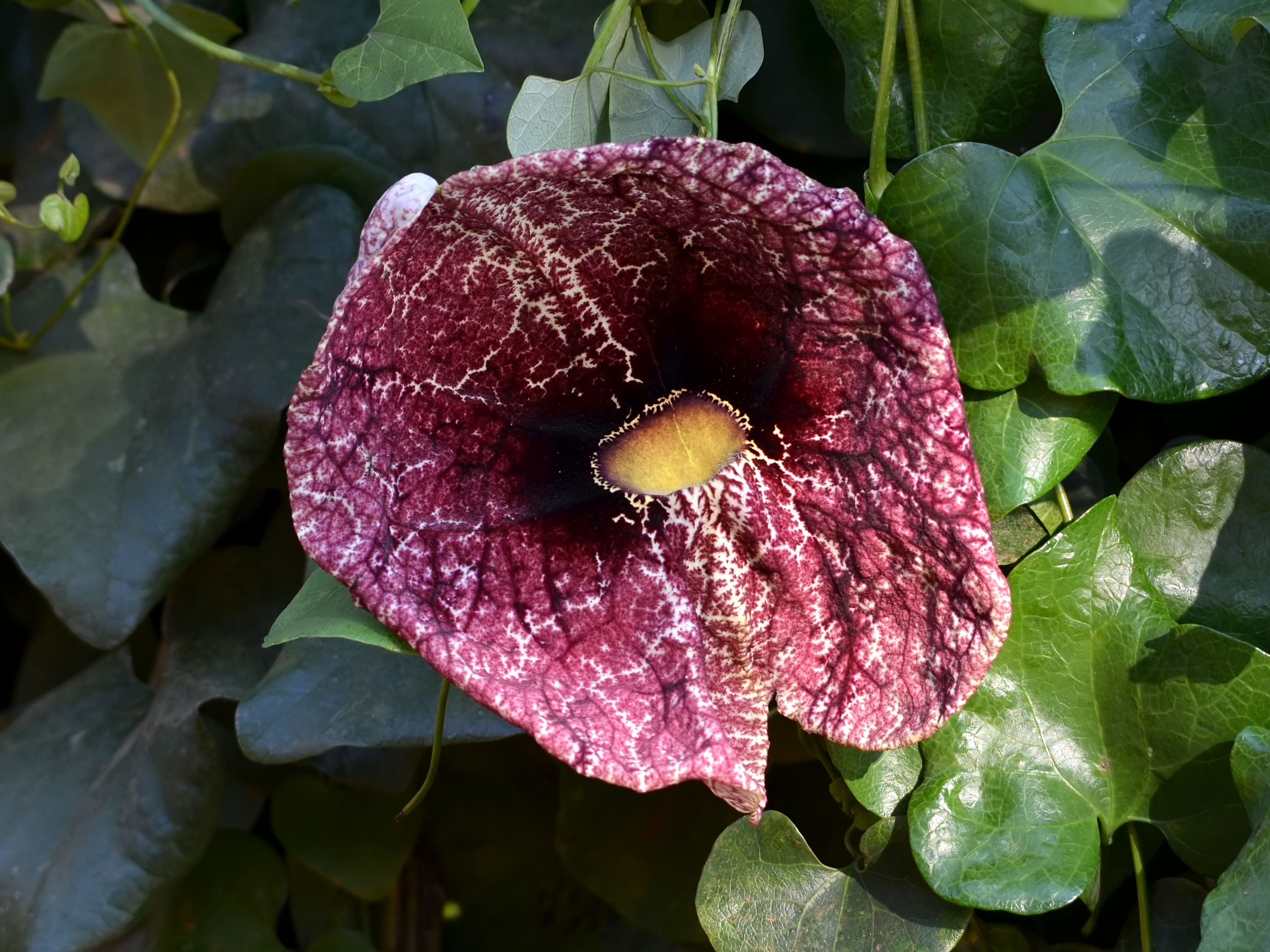 Elegant Dutchman's pipe near Lusaka, Zambia.